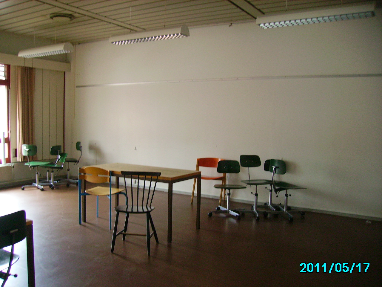 Classroom at the original part of KUA, the Amager campus and arts faculty of the University of Copenhagen. Those rooms not renovated are still marked by 1970s esthetics and cheap materials.